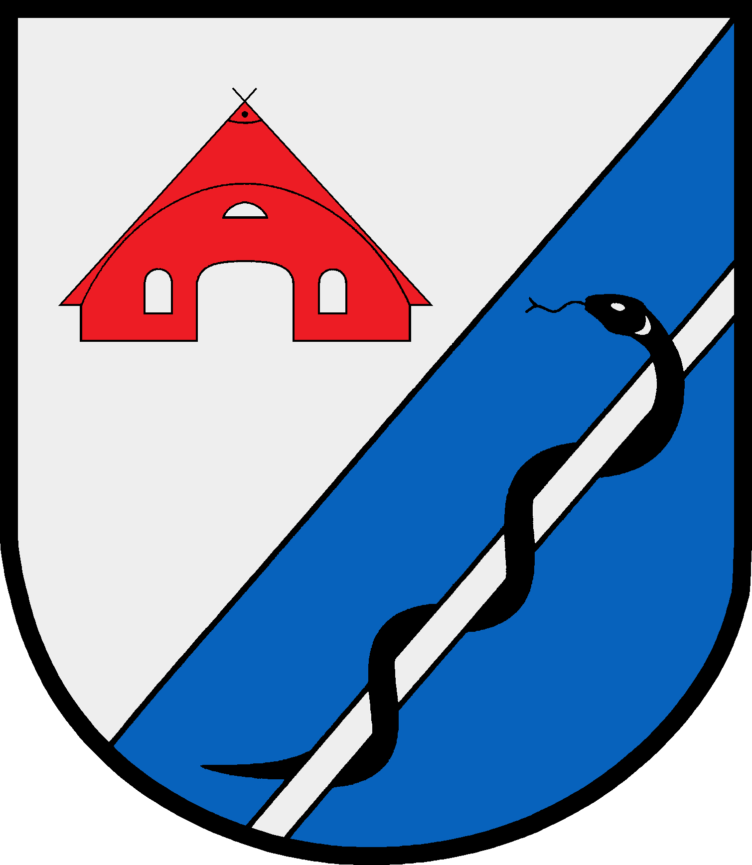 Coat of arms of the municipality Stakendorf in Schleswig-Holstein, Germany.